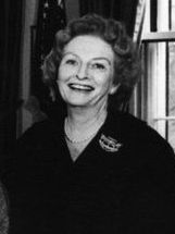 Katie Louchheim, Deputy Assistant Secretary of State for Public Affairs, accompanying recipients of the 1962 Federal Woman’s Award for outstanding contributions to government. Oval Office, White House, Washington, D.C.